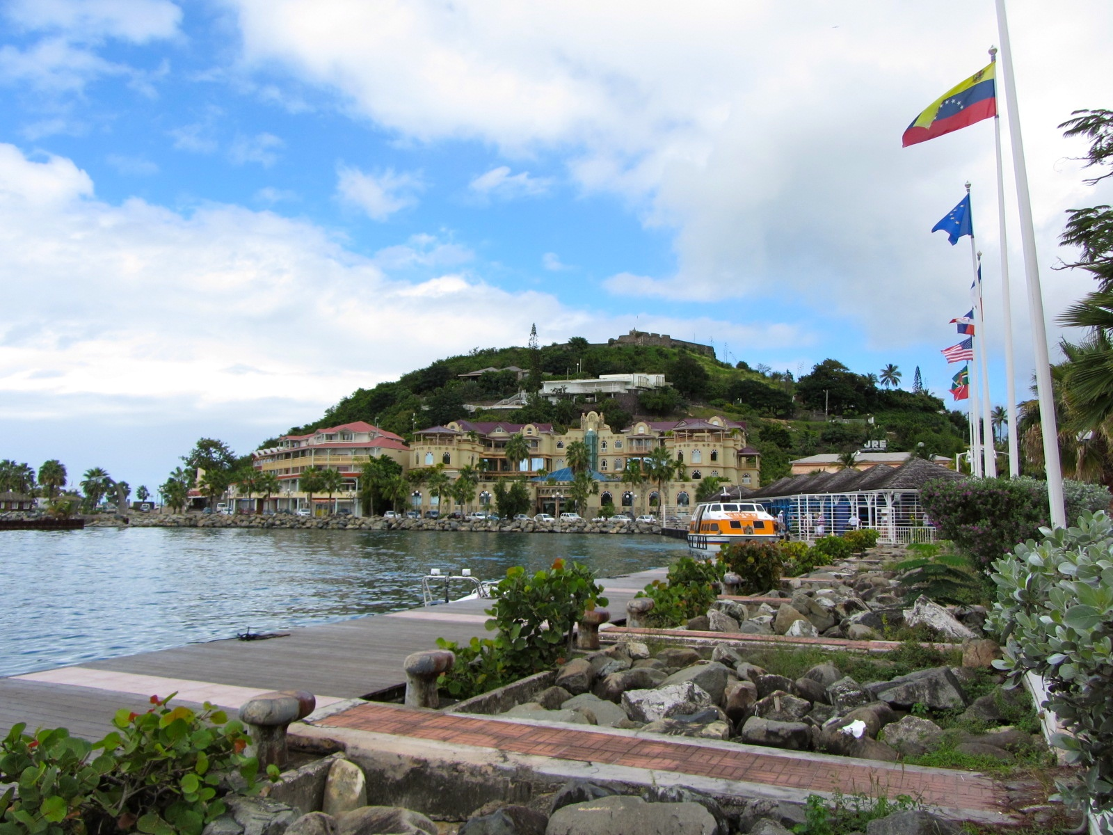 Marigot Bay with West Indies Mall and Fort Louis, Horizontal